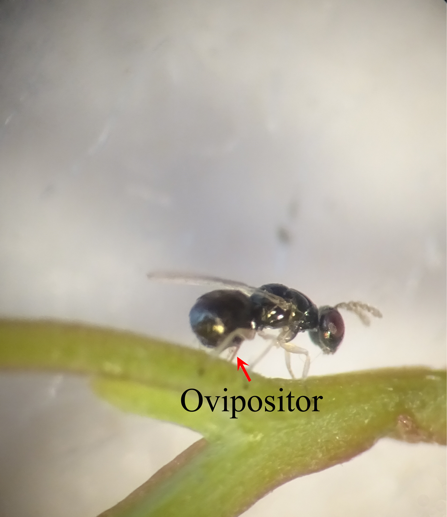 Figure 2 of paper. Newly emerged female of Leptocybe invasa inserting ovipositor into the petiole of Eucalyptus grandis × Eucalyptus tereticornis.